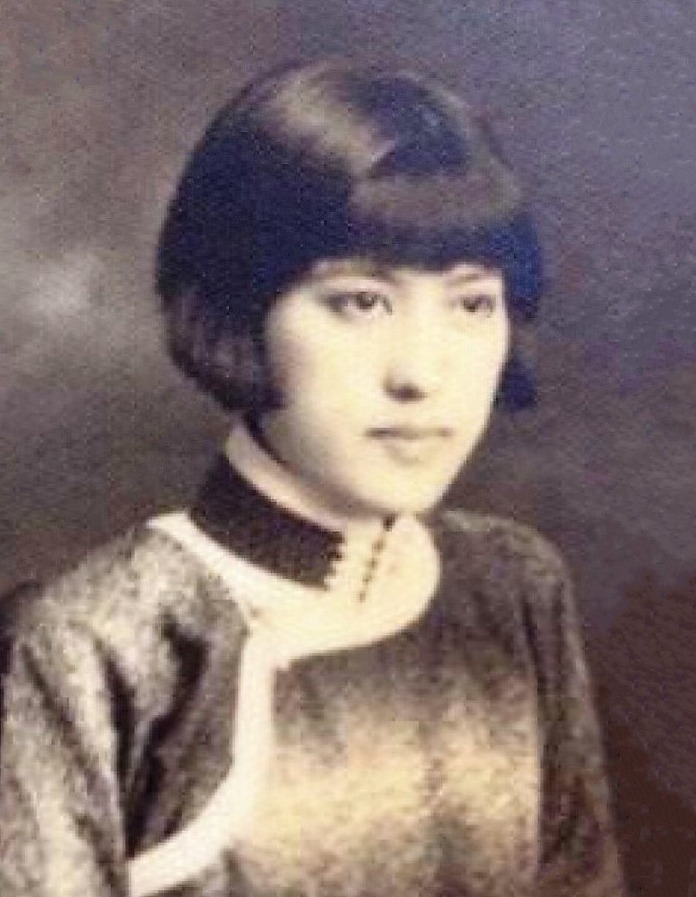 Chen Cui-yu